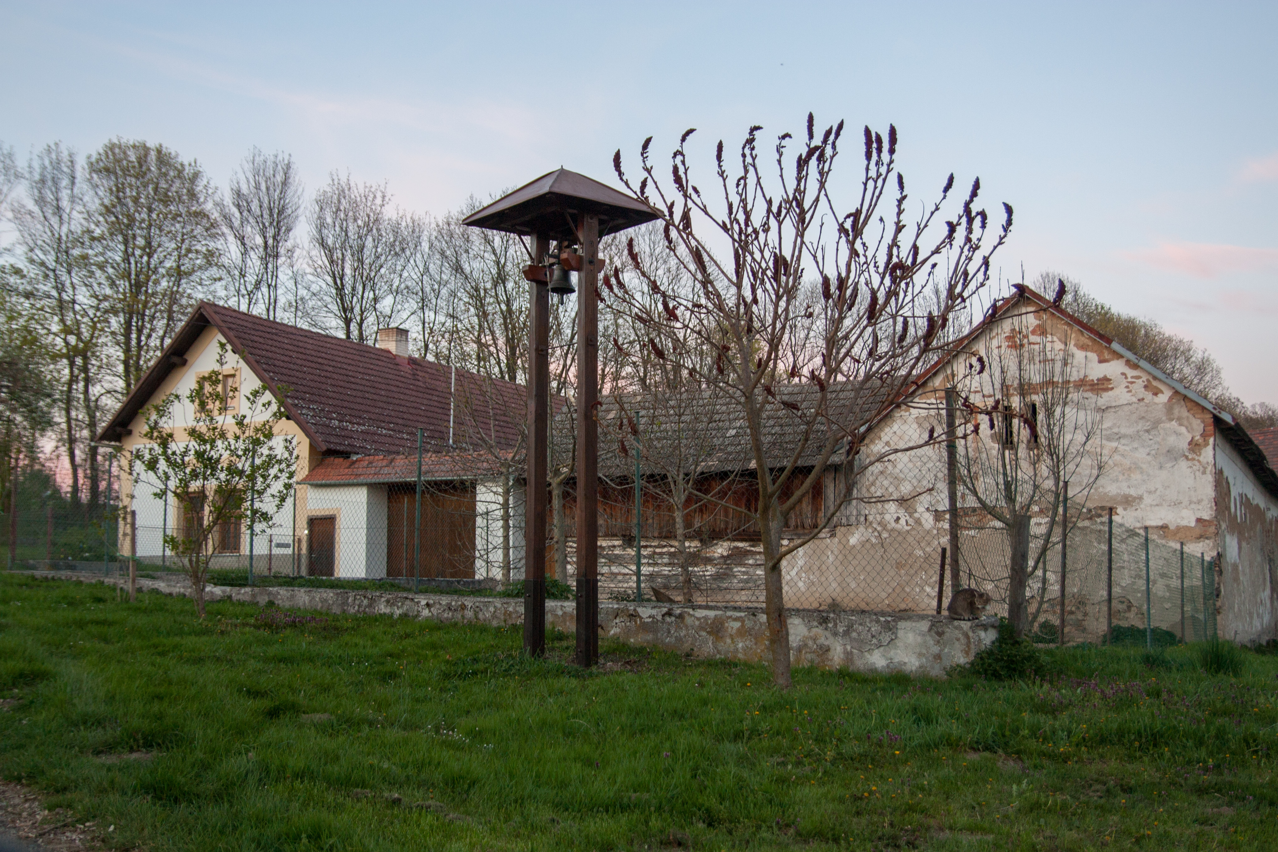 Houses in municipality Hlohov (Zvěstov), Benešov District, Central Bohemian Region, Czechia